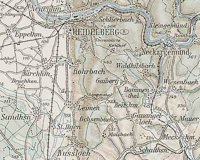 part of 3rd Military Mapping Survey of Austria-Hungary - Karlsruhe